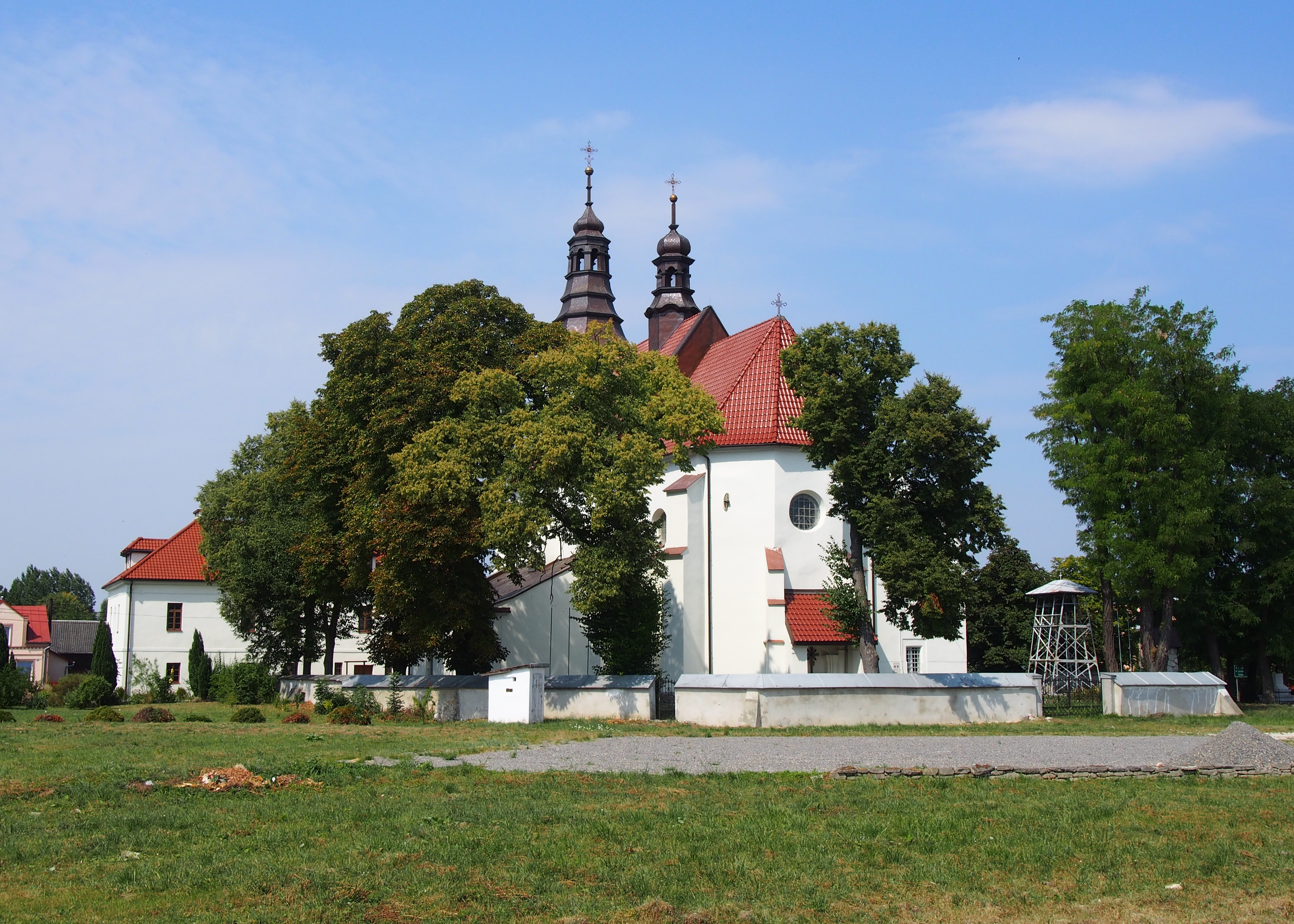 Former Benedictine monastery: rectory, church of the Assumption and church cemetery fence in Koniemłoty, powiat staszowski, Świętokrzyskie Voivodeship, Poland.